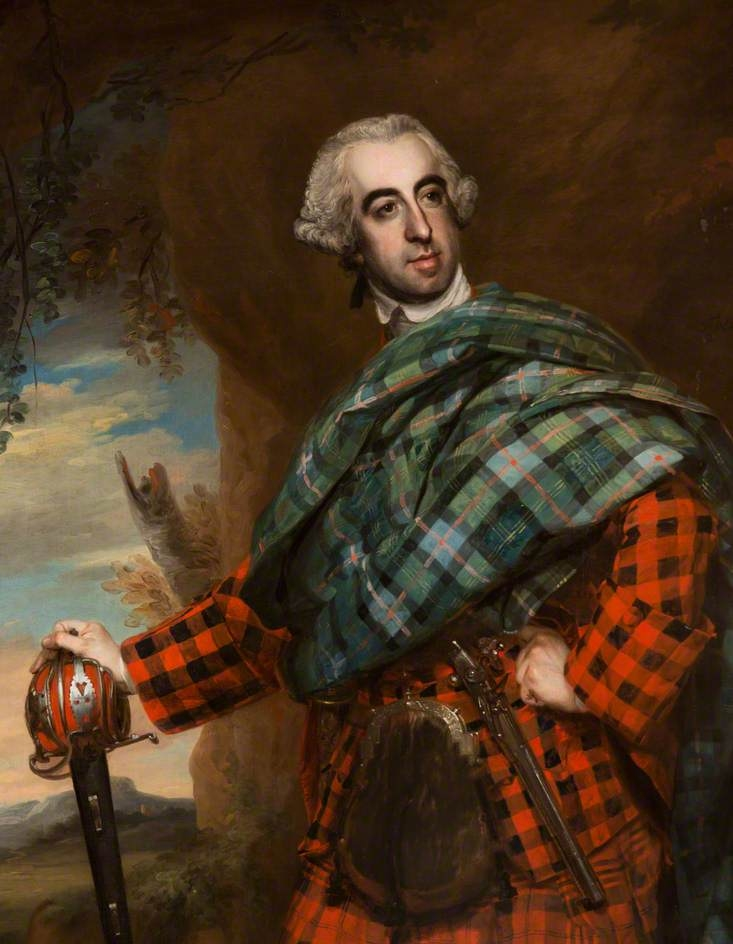 Portrait of Pryse Campbell (1726–1768) by Francis Cotes.